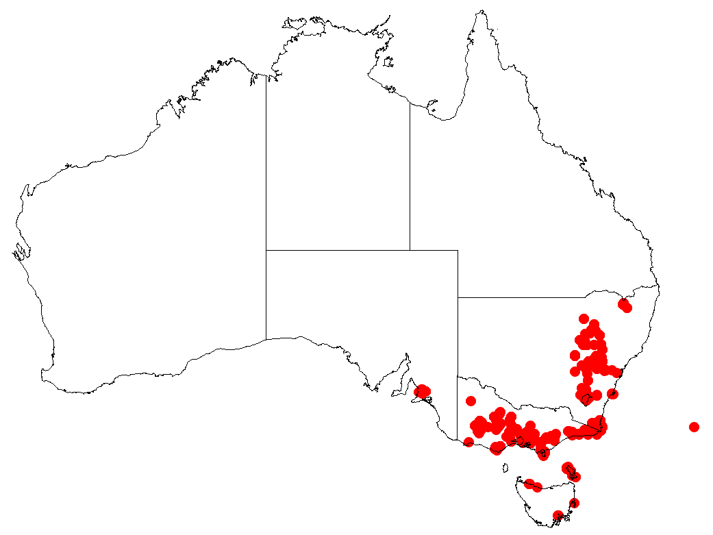 Hakea decurrens Occurrence data downloaded from Australasian Virtual Herbarium on 22 November 2018 using